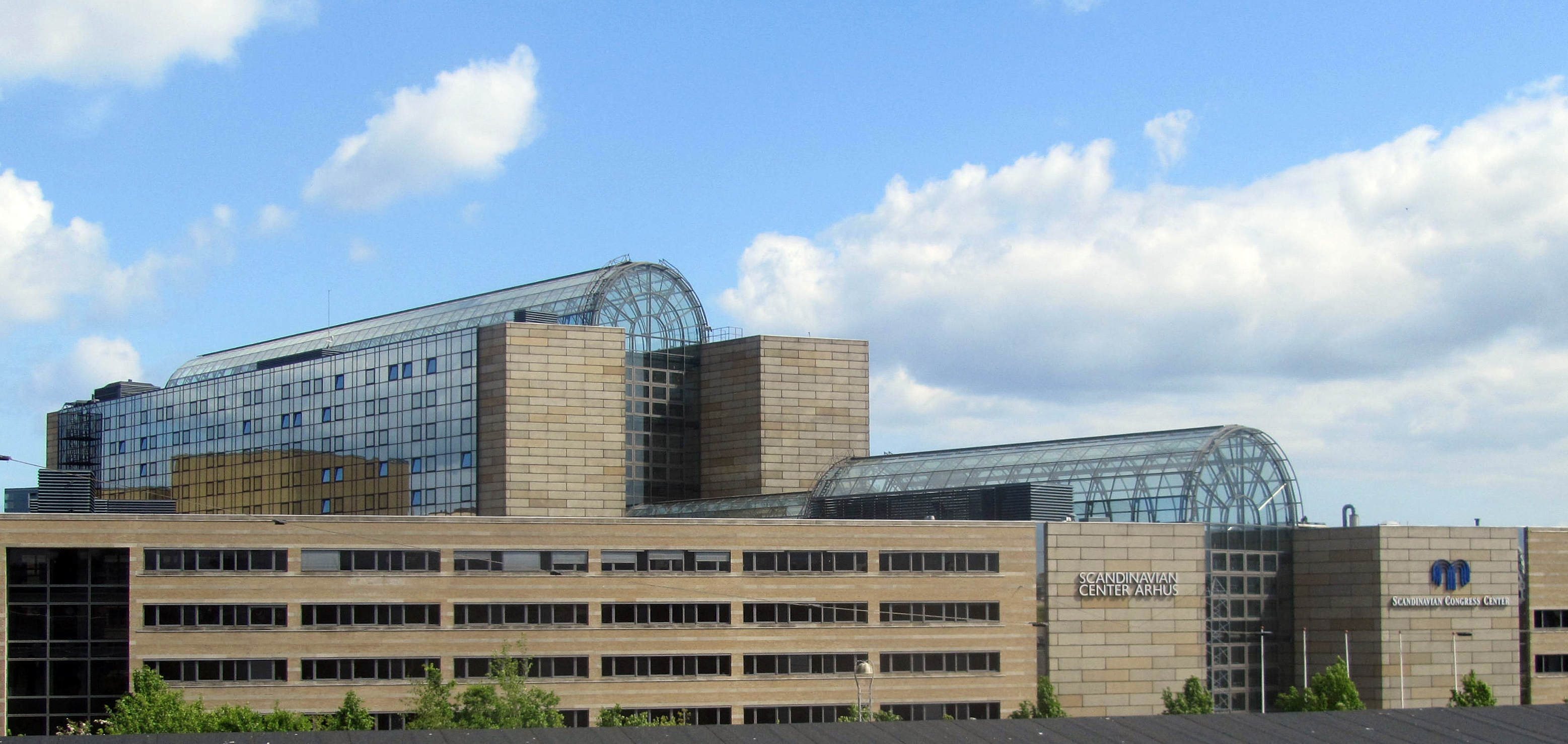 Scandinavian Center Aarhus seen from North